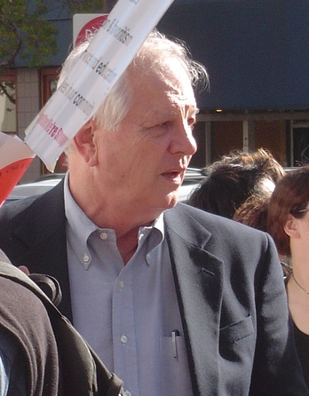 Mayor of Berkeley Tom Bates supporting the workers in the UC workers strike of 2005.